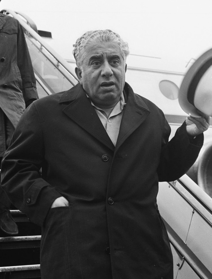 Aram Khachaturian